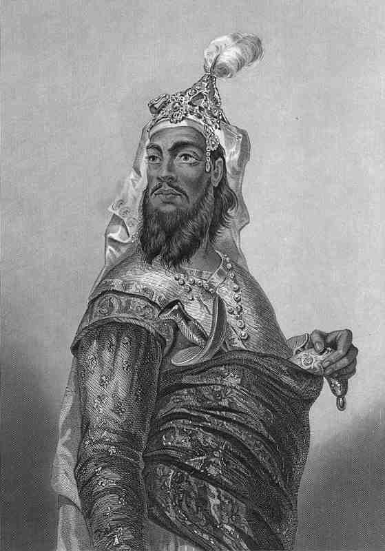 "Kooer Singh," a steel engraving from 'The Indian Empire', c.1858